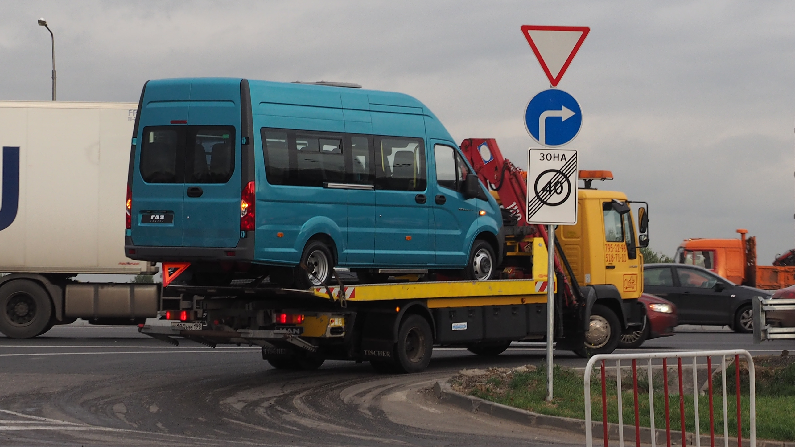 GAZ GAZelle Next minibus (2015- )